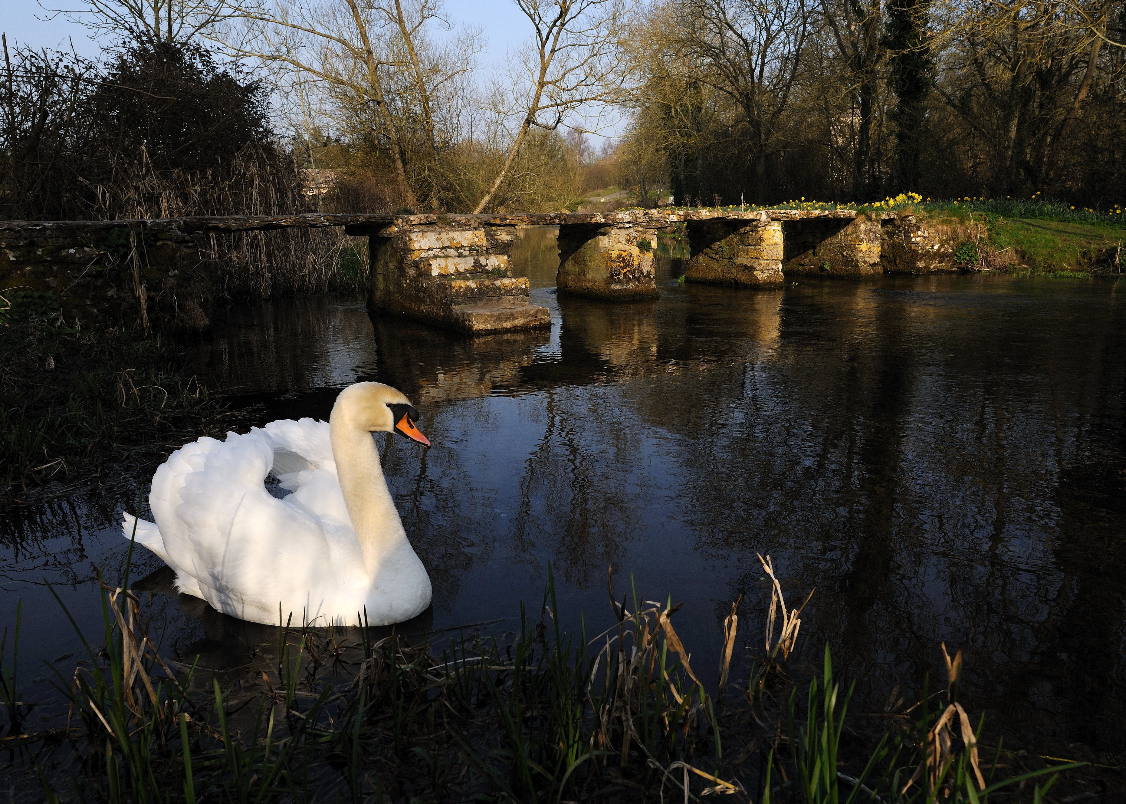 Stone slab clapper footbridge that crosses the River Leach. The bridge allows people to cross from Eastleach Turville to Eastleach Martin.